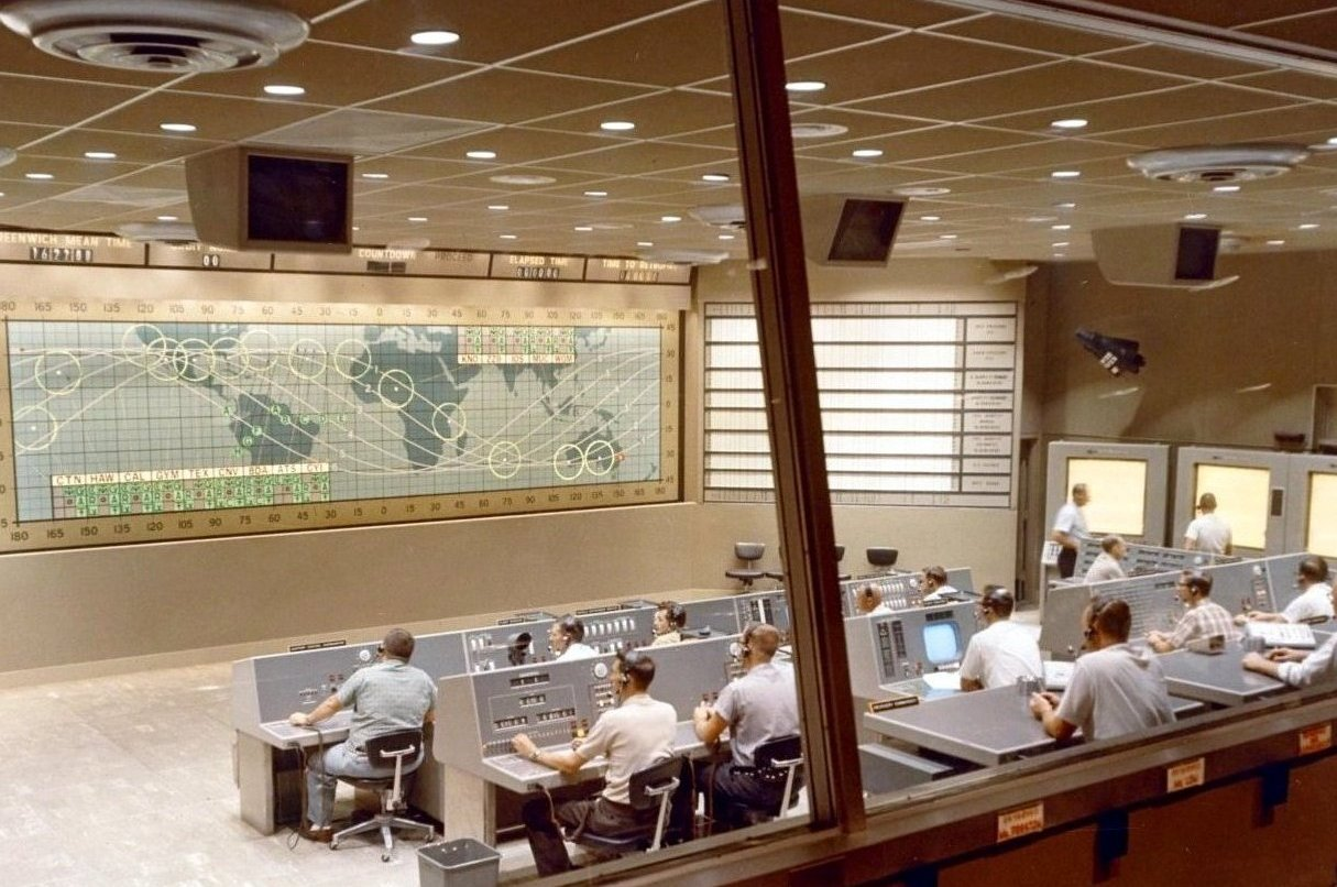 Derived from File:Mercury Control.jpg